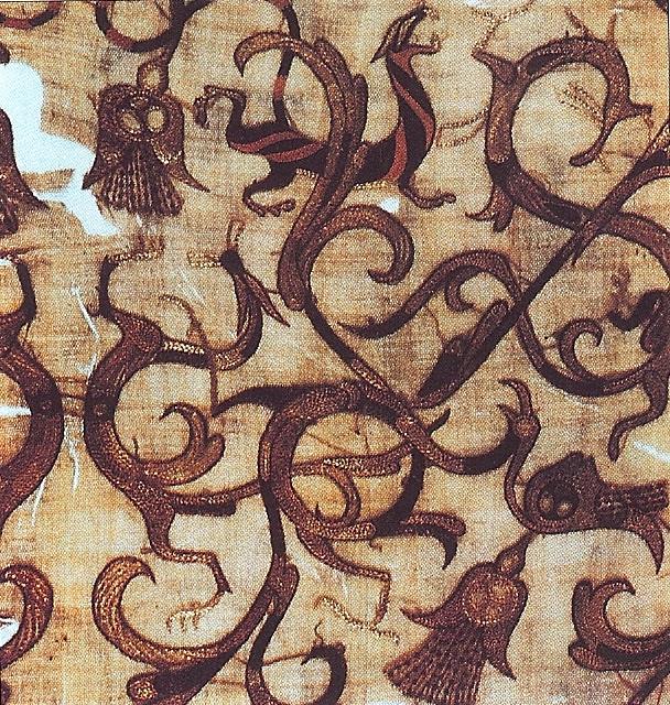 Detail of an embroidered silk gauze ritual garment from a 4th century BC, Zhou era tomb at Mashan, Hubei province, China. The flowing, curvilinear design incorporates dragons, phoenixes, and tigers. Rows of even, round chain-stitches are used both for outline and to fill in color.